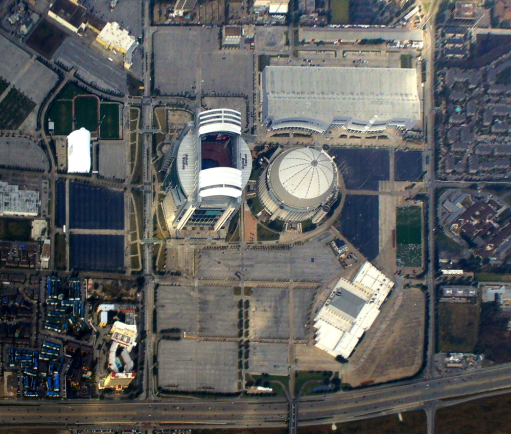 Reliant Park, Houston, as seen from the air